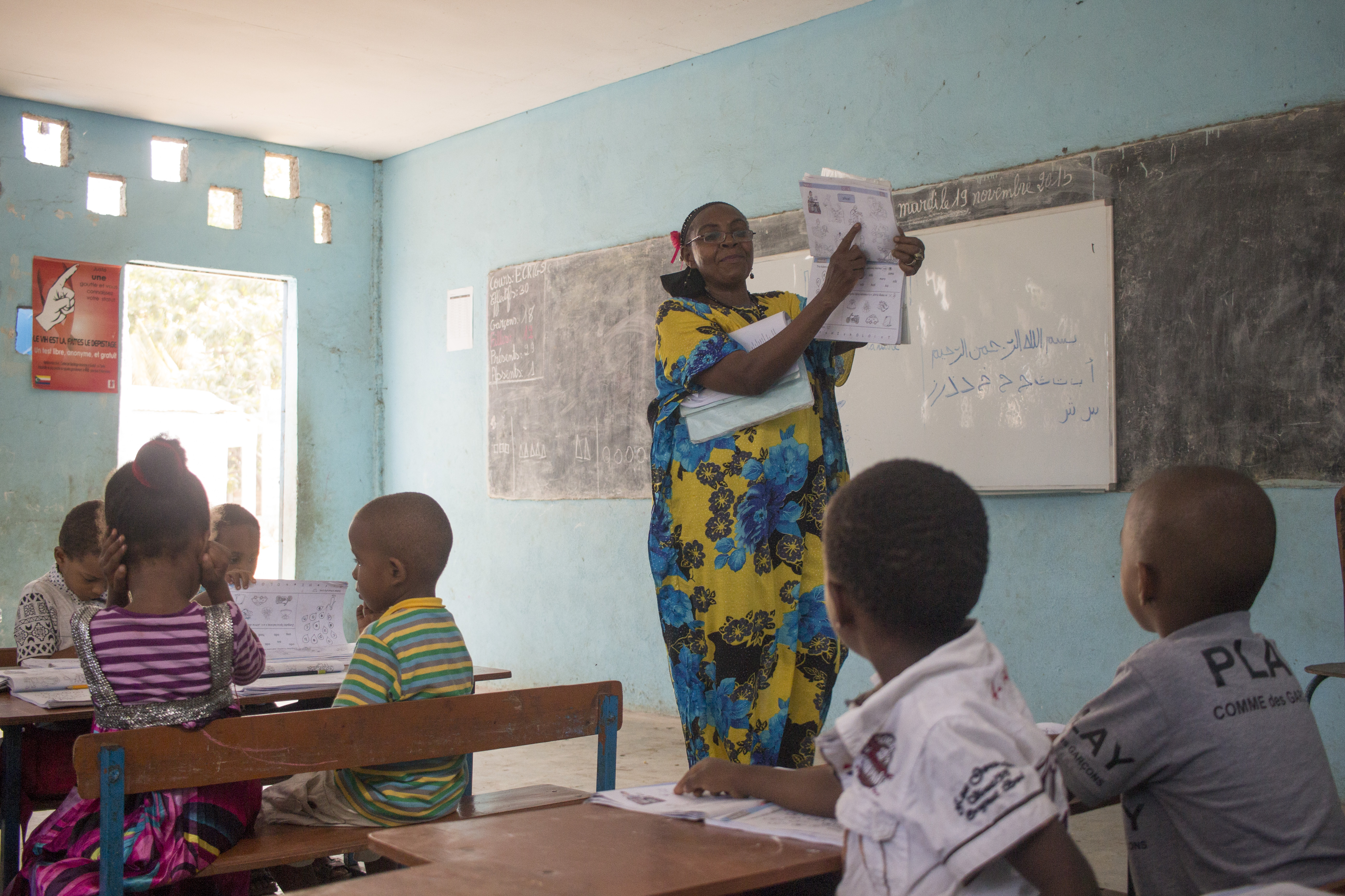 A Teacher that works in a prescolair class and teaches Shindzuwani - the local language. Taken in Anjouan, Comoros This is an image of "African people at work" from Comoros